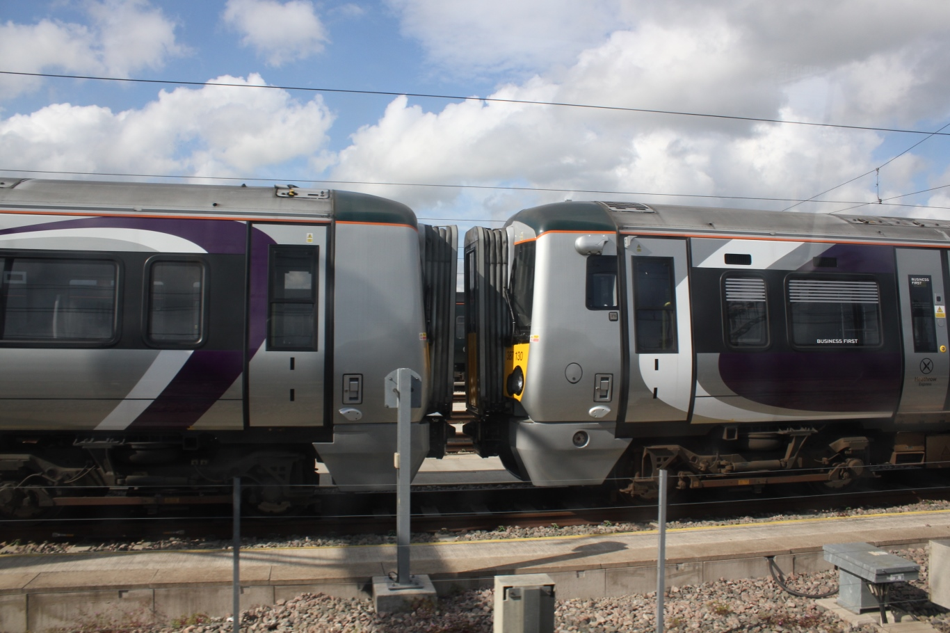 Great Western Railway's first two 'Electrostars' that are being prepared to take over Heathrow Express services in 2019, 387140 and 387130, stand in the depot sidings at Reading.